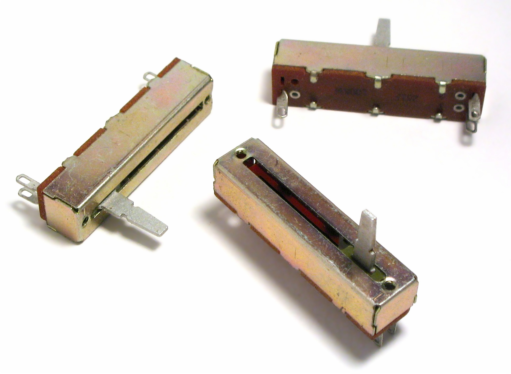 Fader potentiometers.